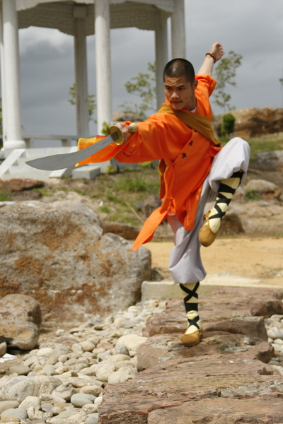 Wang Bo with sword